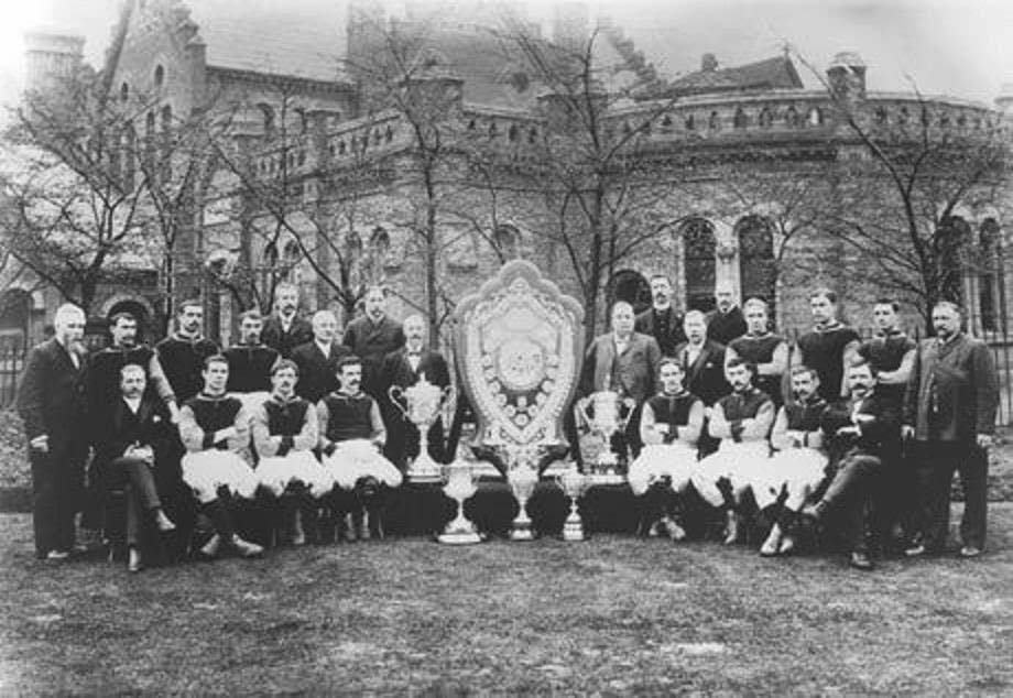 The Aston Villa team of 1899 that won First Division and Sheriff of London Charity Shield (shared with Queen's Park). The hugely successful team Ramsay assembled at the end of the 19th Century. Ramsay can be seen standing on the far left of the back row. The presence of the large shield (the Sheriff of London Shield) in the centre of the image attests to this being an 1899 photograph.